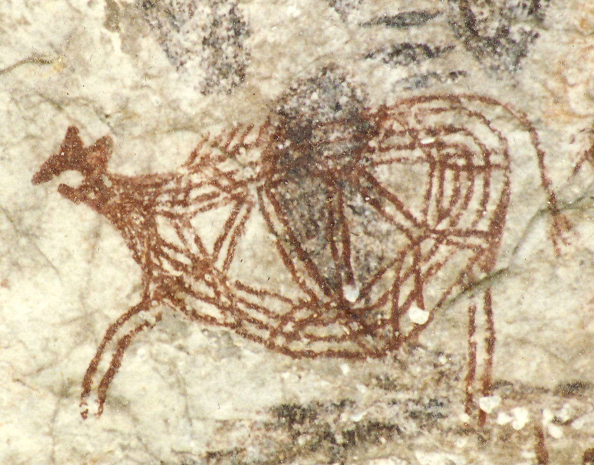 Gua Tambun (Malaysia), rock art from the Neolithic